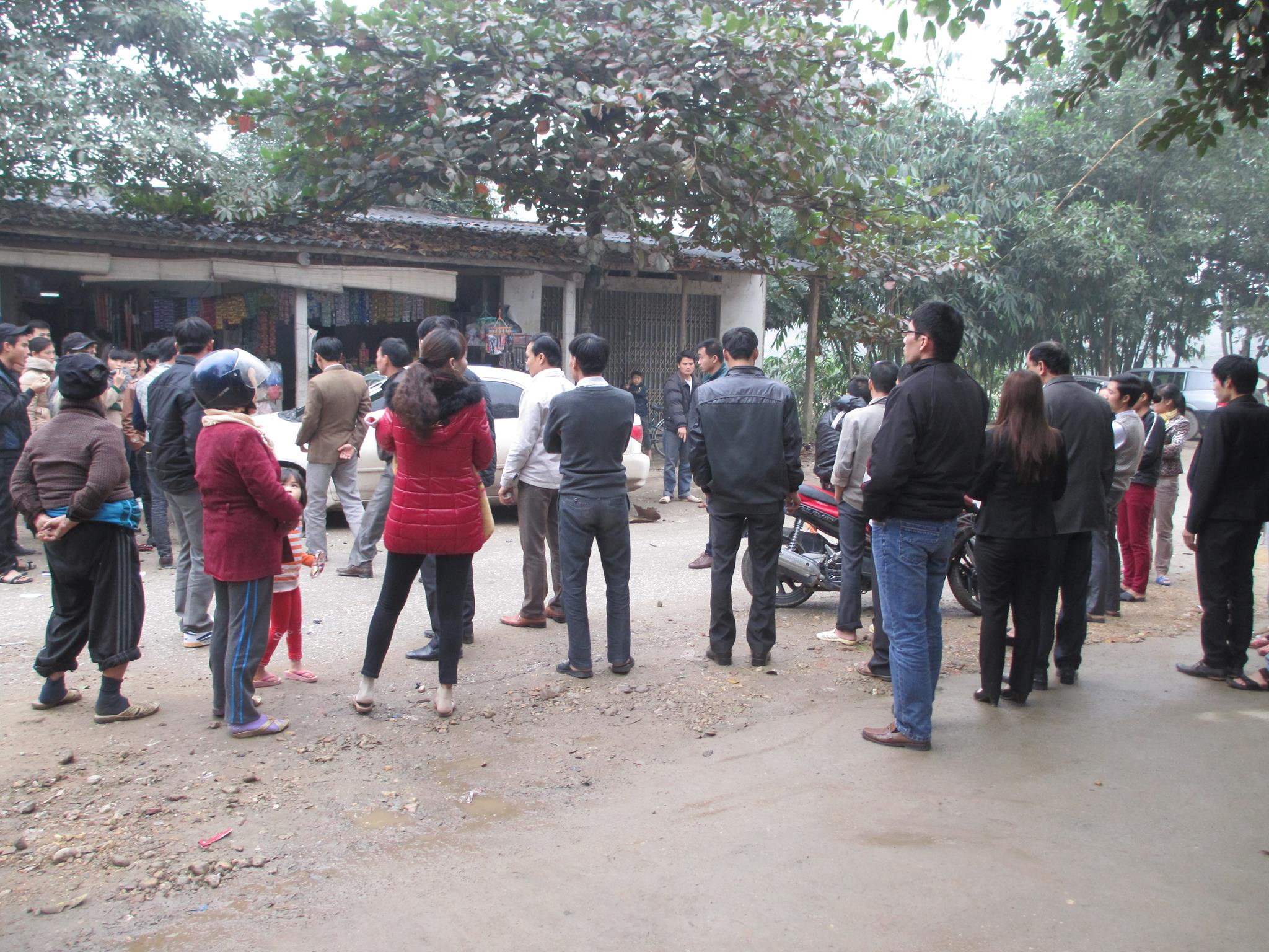 Small accident between a car and scooter in Tuyen Quang Province, Vietnam. Taken 2013-12-13. Onlookers assess the accident. Scooter driver received only minor scratches.